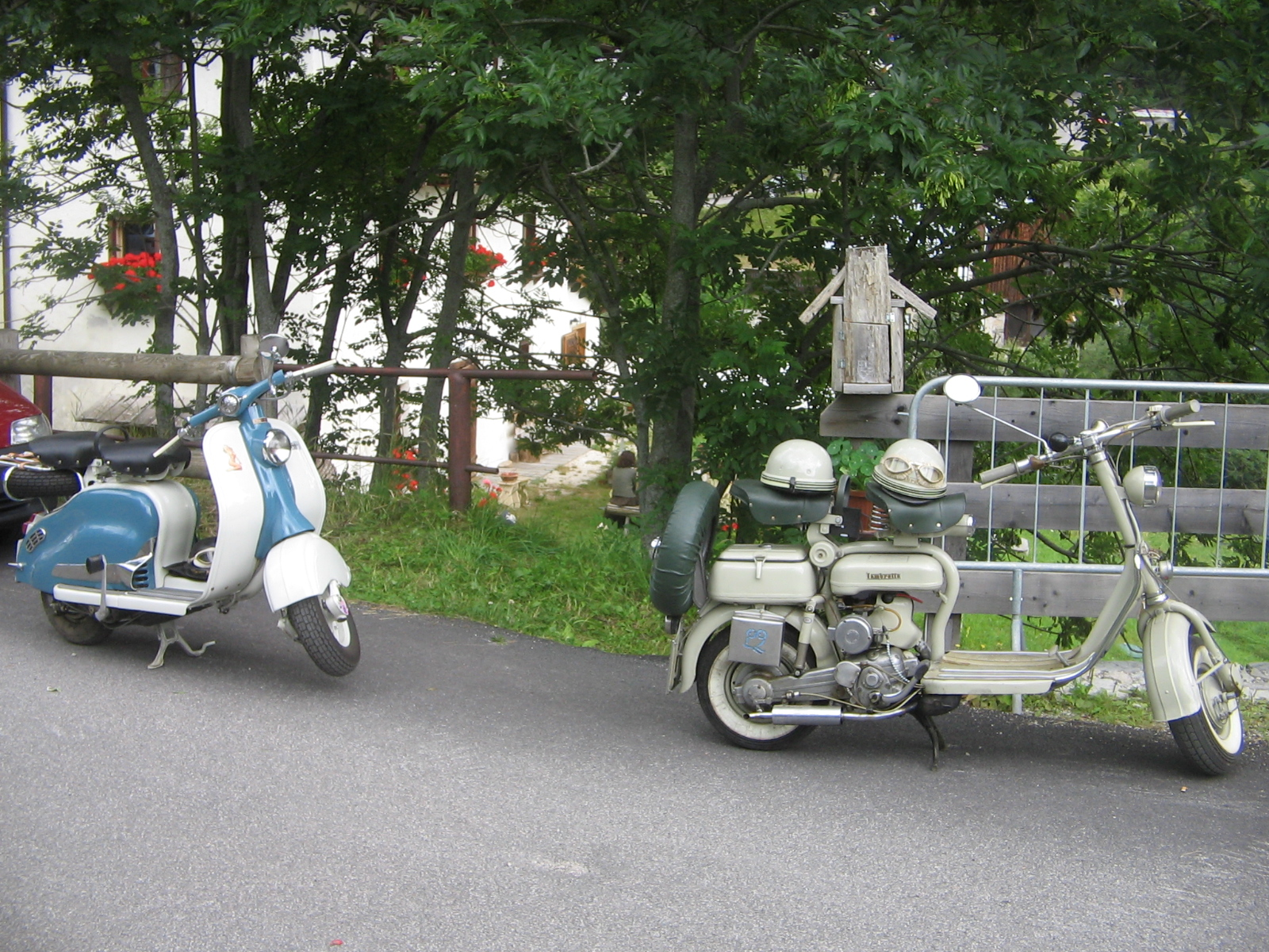 A pair of old Lambretta (model 150 ld on the left, model 150 d on the right)